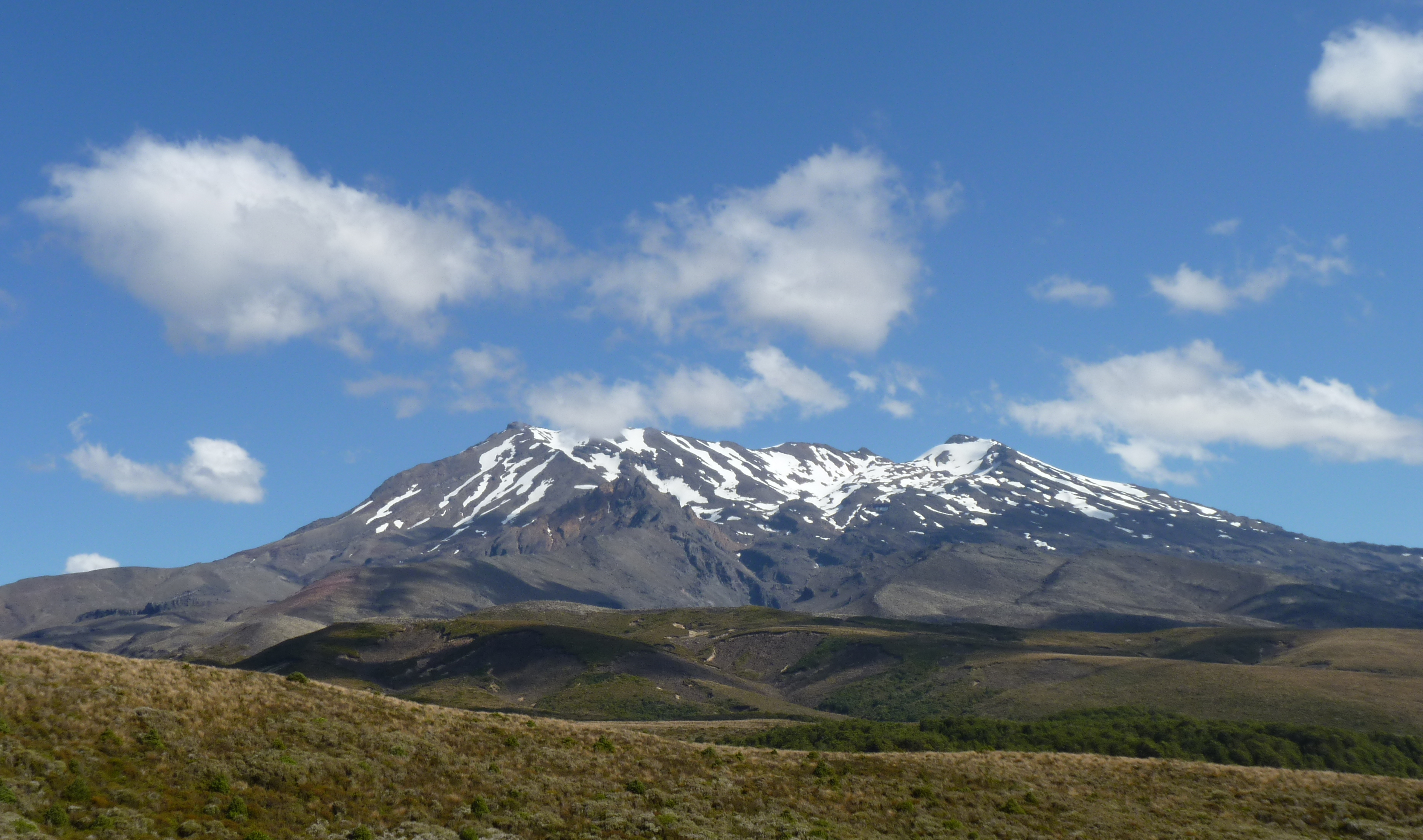 Mt Ruapehu from Tongariro Northern Circuit, New Zealand